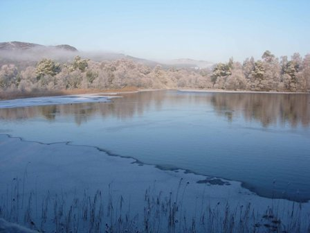 Taken in December 2005, This is a picture of Loch of the Lowes nature reserve, Perthshire, Scotland. The reserve is owned by the Scottish Wildlife Trust